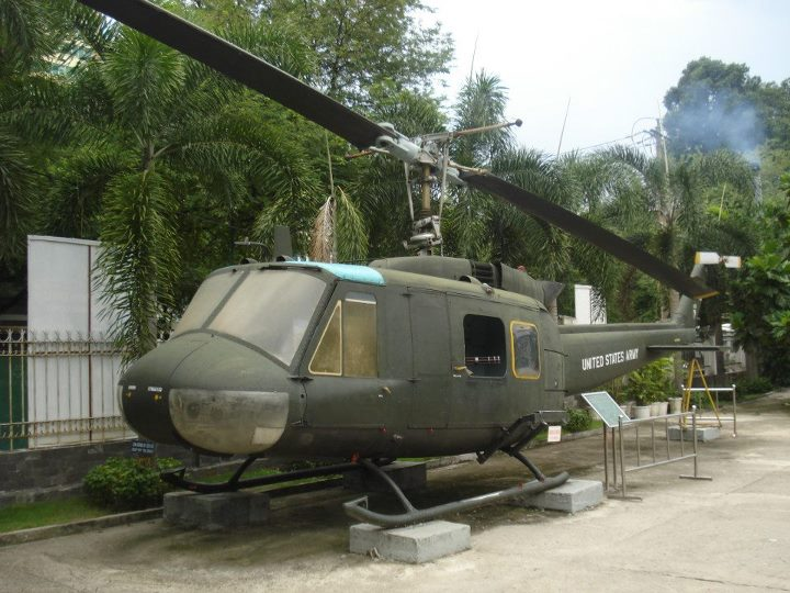 Images of the Vietnam War, several decades later. Taken by Daniel Hills in Vietnam during a trip in Summer 2012.